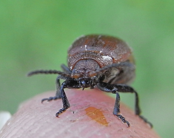 Lochmaea crataegi from Hungary, Hercegszanto, at 2010-05-14 Ricoh R8